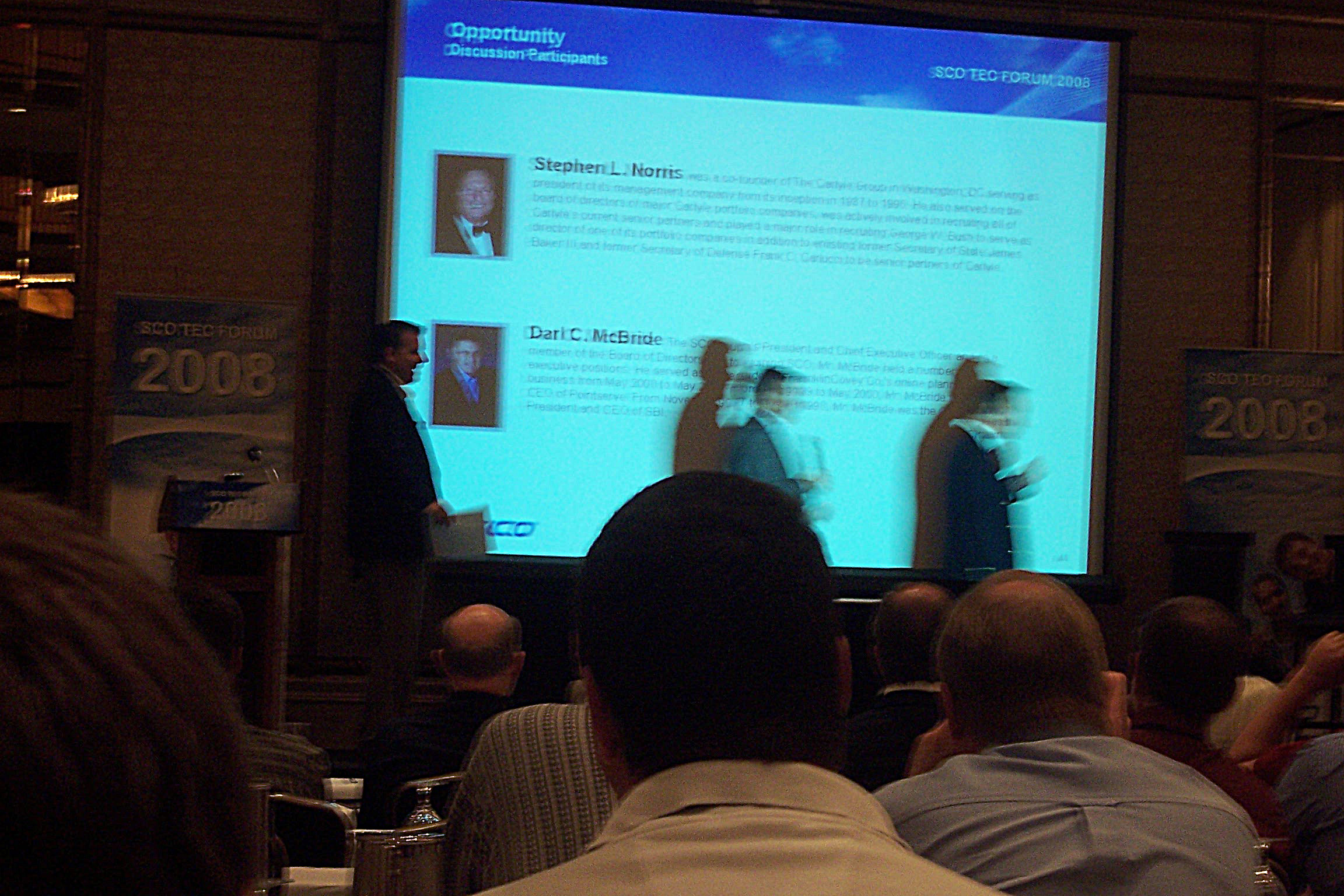 The SCO Group CEO Darl McBride brings on investment group head Stephen Norris during the opening session of SCO Tec Forum 2008 at the Luxor in Las Vegas, Nevada. SCO President and COO Jeff Hunsaker is on the left, having introduced them.